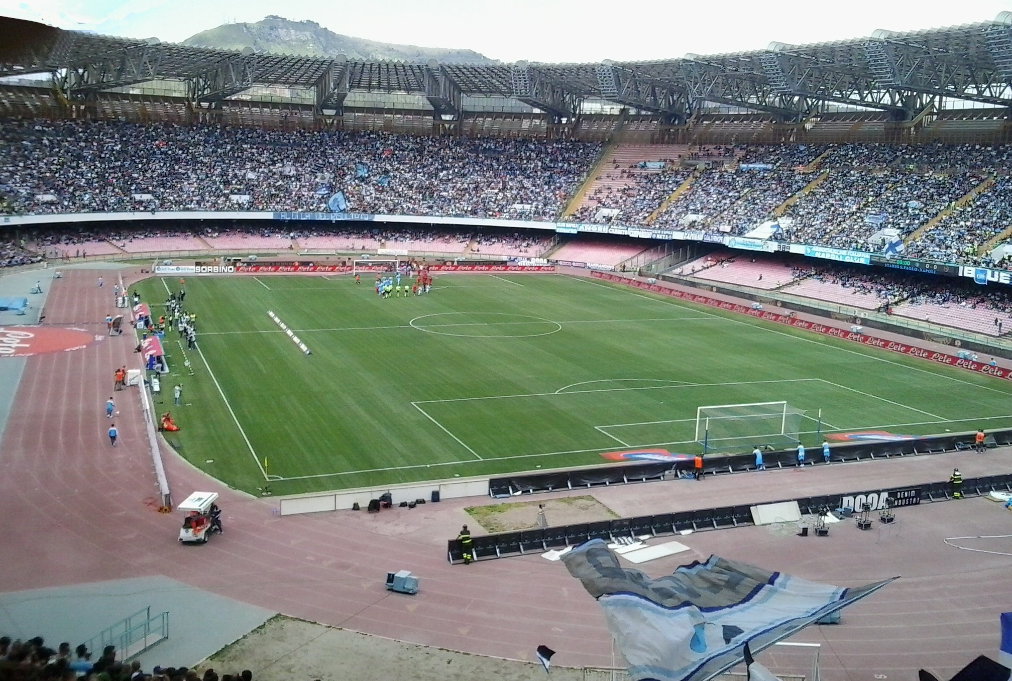 San Paolo Stadium. Naples. During an italian Serie A match with SSC Napoli. Location: Curva A.